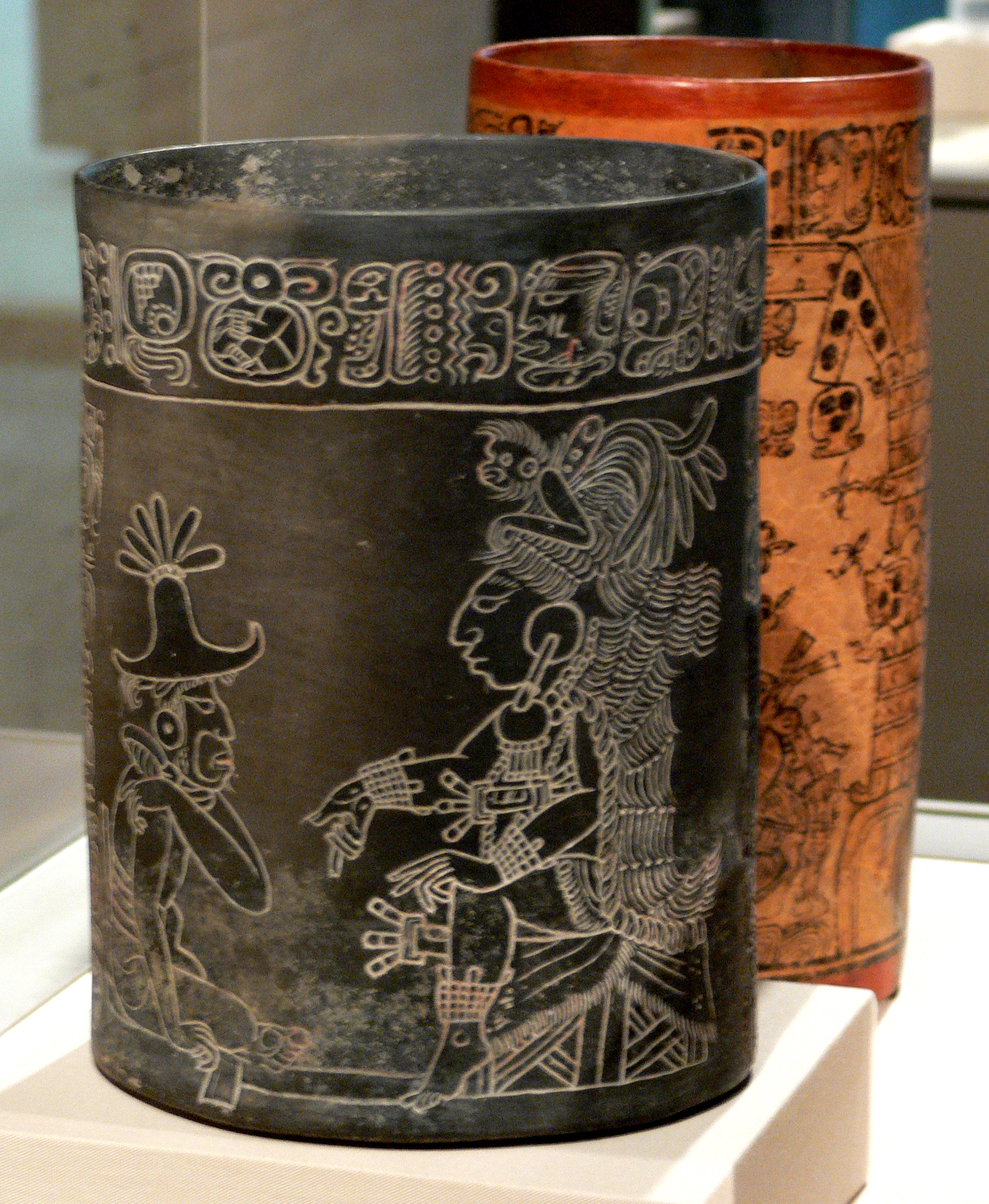 Vessel with an Enthroned Lord and Seated Figure; 765; Mexico, Xcalumkin (Northern Lowlands), Maya culture, Late Classic period (A.D. 600–900); Incised ceramic (fine grayware) with traces of red pigment; 22.9 x 17.2 cm diameter Kimbell Art Museum Fort Worth, Texas; AP 2000.04 ses